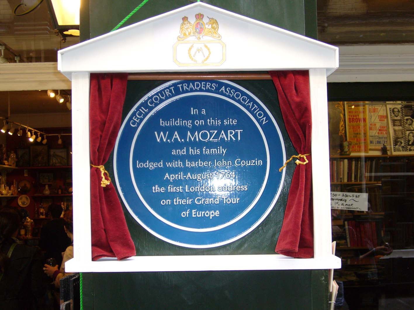 Plaque in Cecil Court commemorating Mozart's residence there in 1764 This image represents an Open Plaques entry #7938.